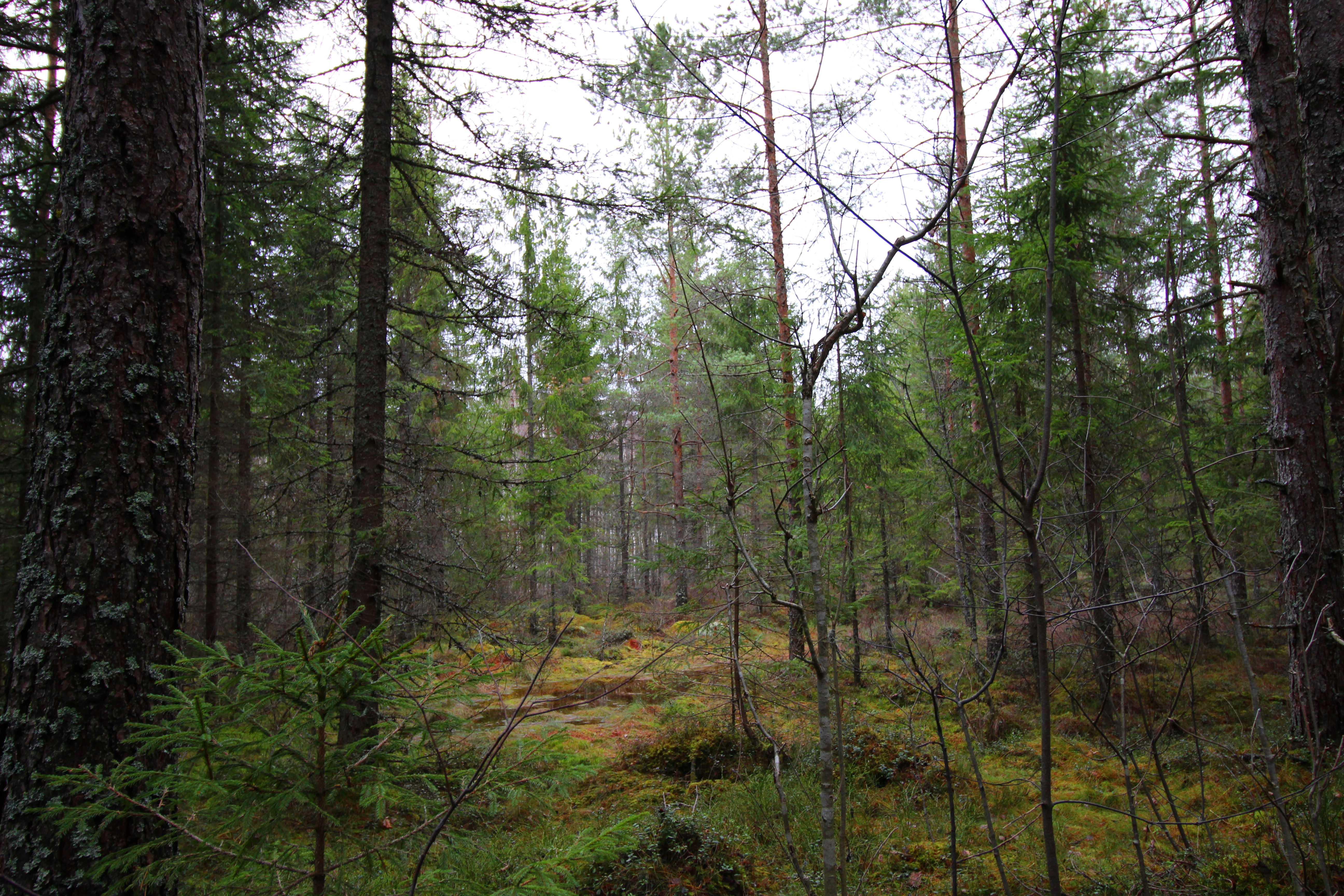 Linnumängu limited-conservation area view, bog in Estonia, Rapla County. Small bog lake.